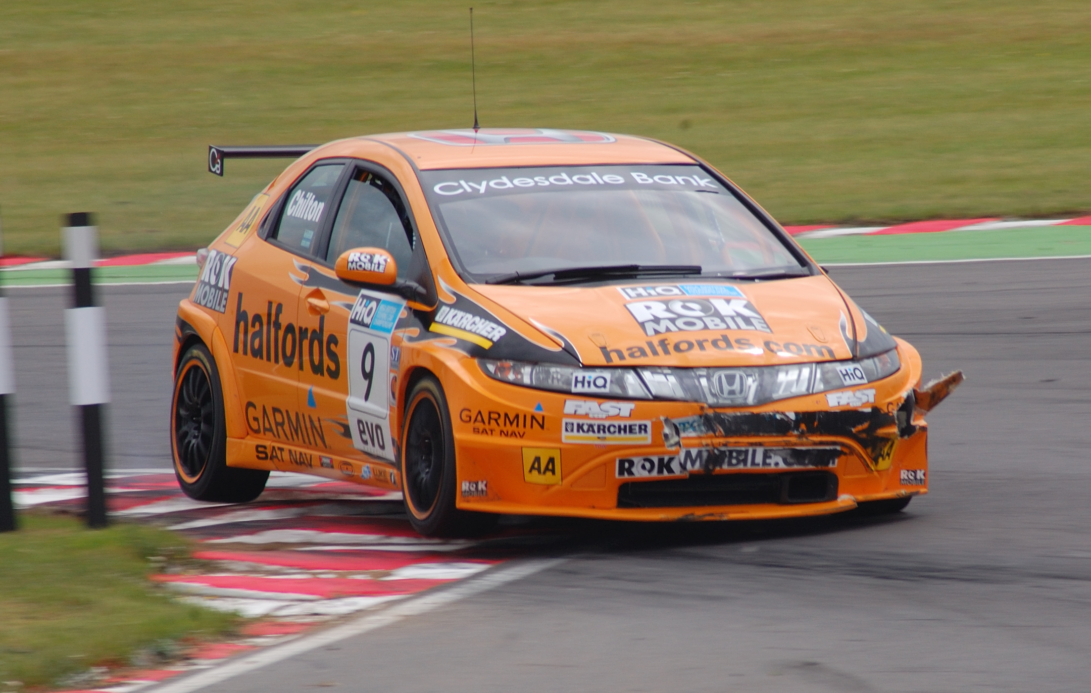 Tom Chilton taking Russell's Chicane at Snetterton in his damaged Honda Civic